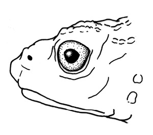 Head shape in lateral view of Osornophryne sumacoensis male, QCAZ 41246.